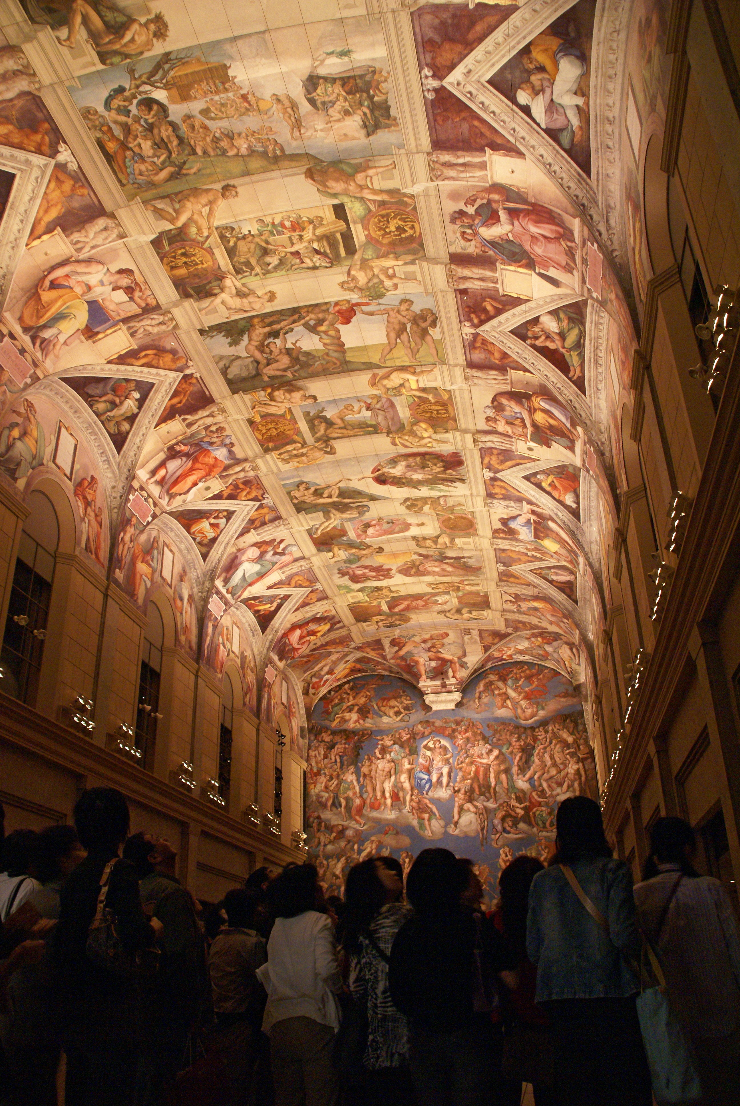 The Otsuka Museum of Art in Naruto, Tokushima prefecture, Japan